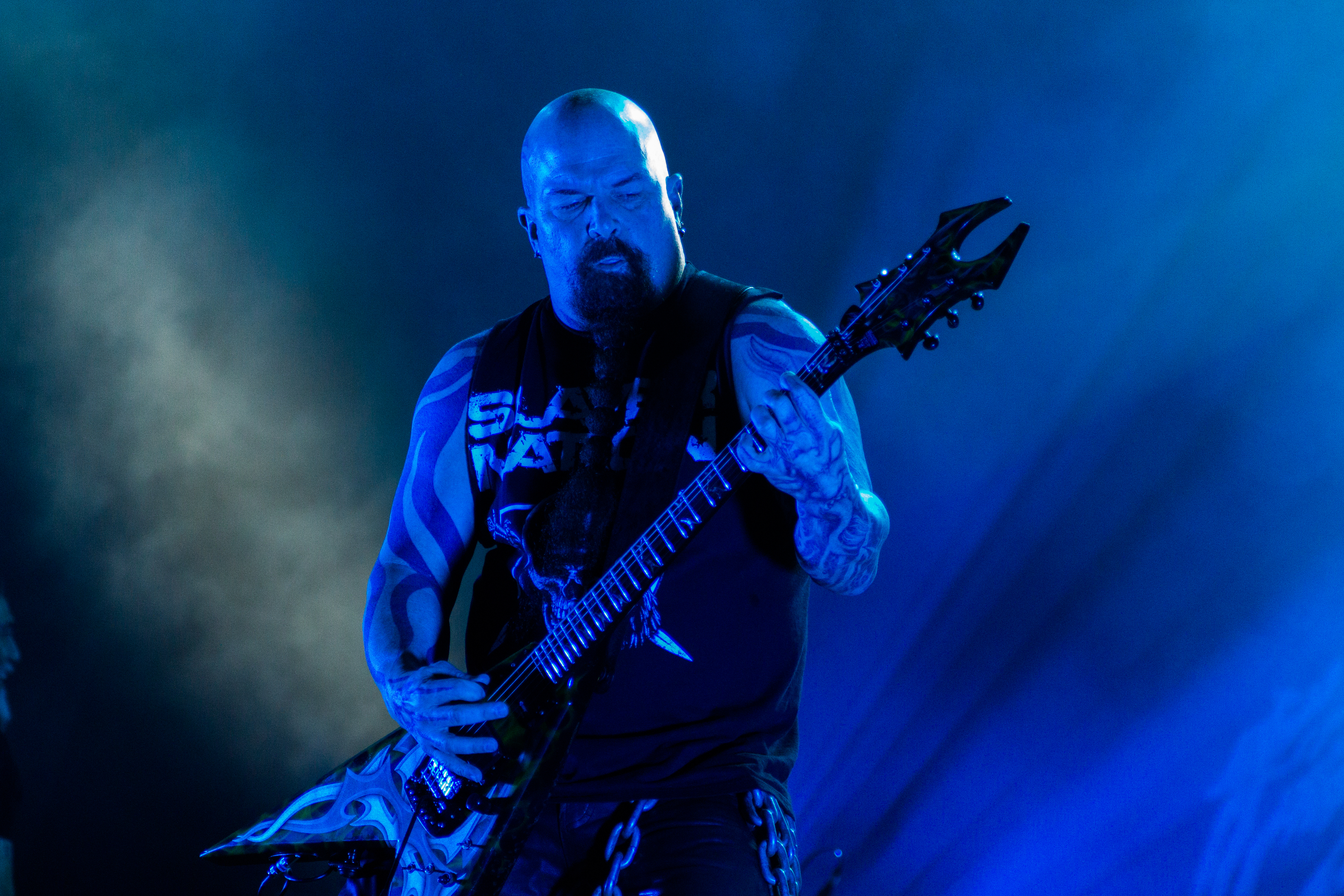 Kerry King from Slayer at the See-Rock Festival 2014